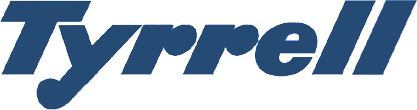 Tyrrell Racing logo.